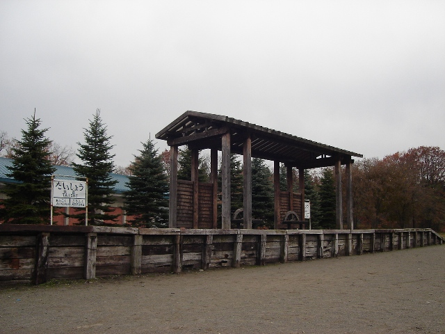 Taisho Station, JNR Hiroo Line